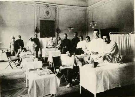 Patients and Staff of United States Base Hospital 32 in Contrexeville, France during World War I.